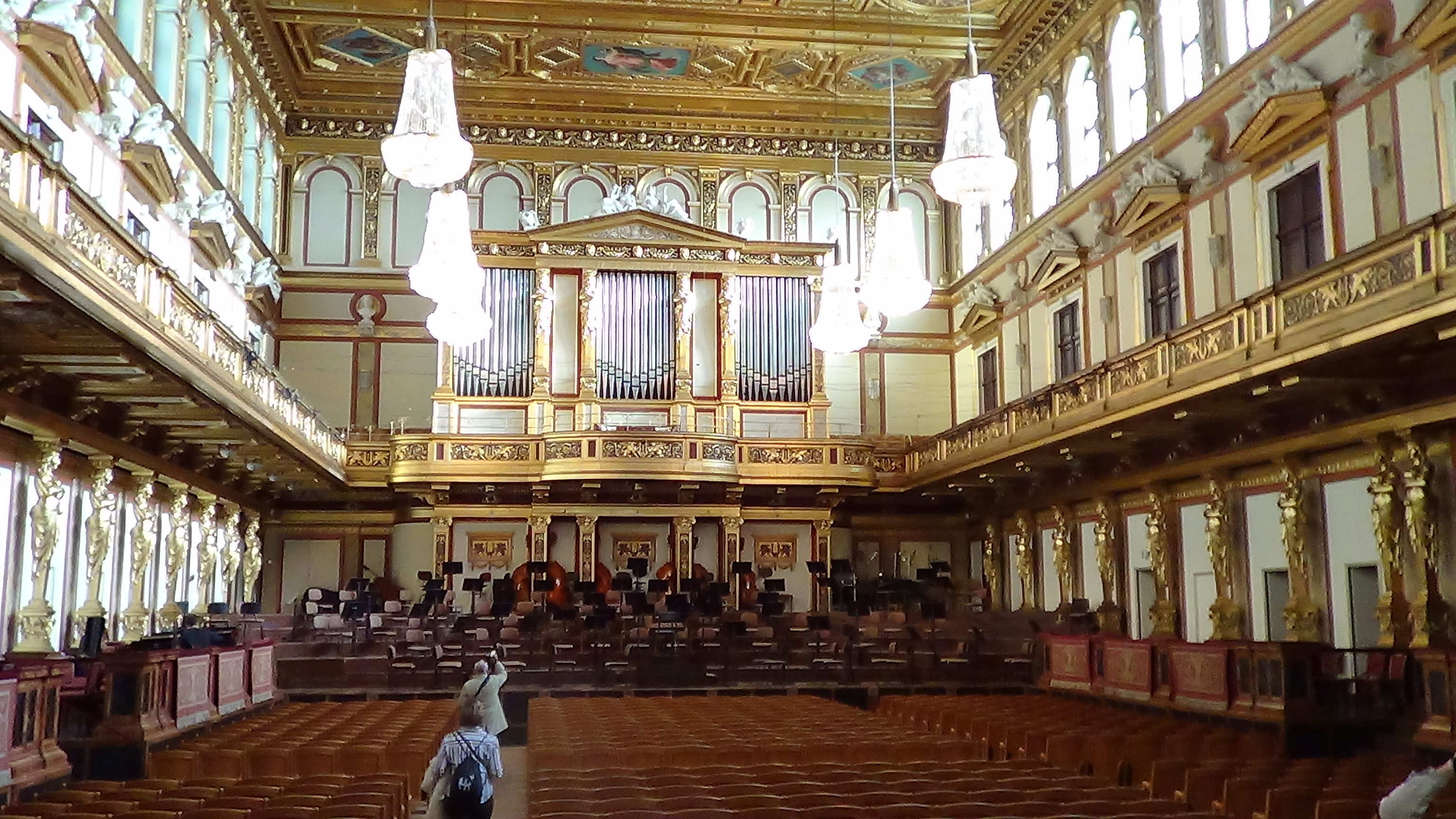 Golden Hall of the Vienna Musikverein. November 2012